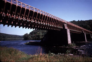 Roebling's Delaware Aqueduct, Lackawaxen, PA Source: National Park Service